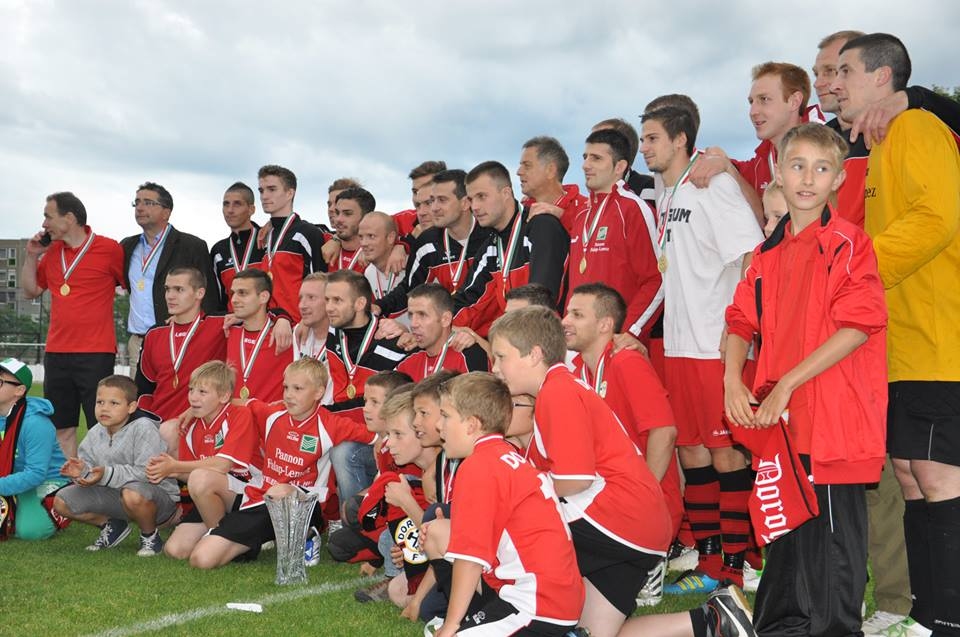 The Dorogian champion soccer team in 2013